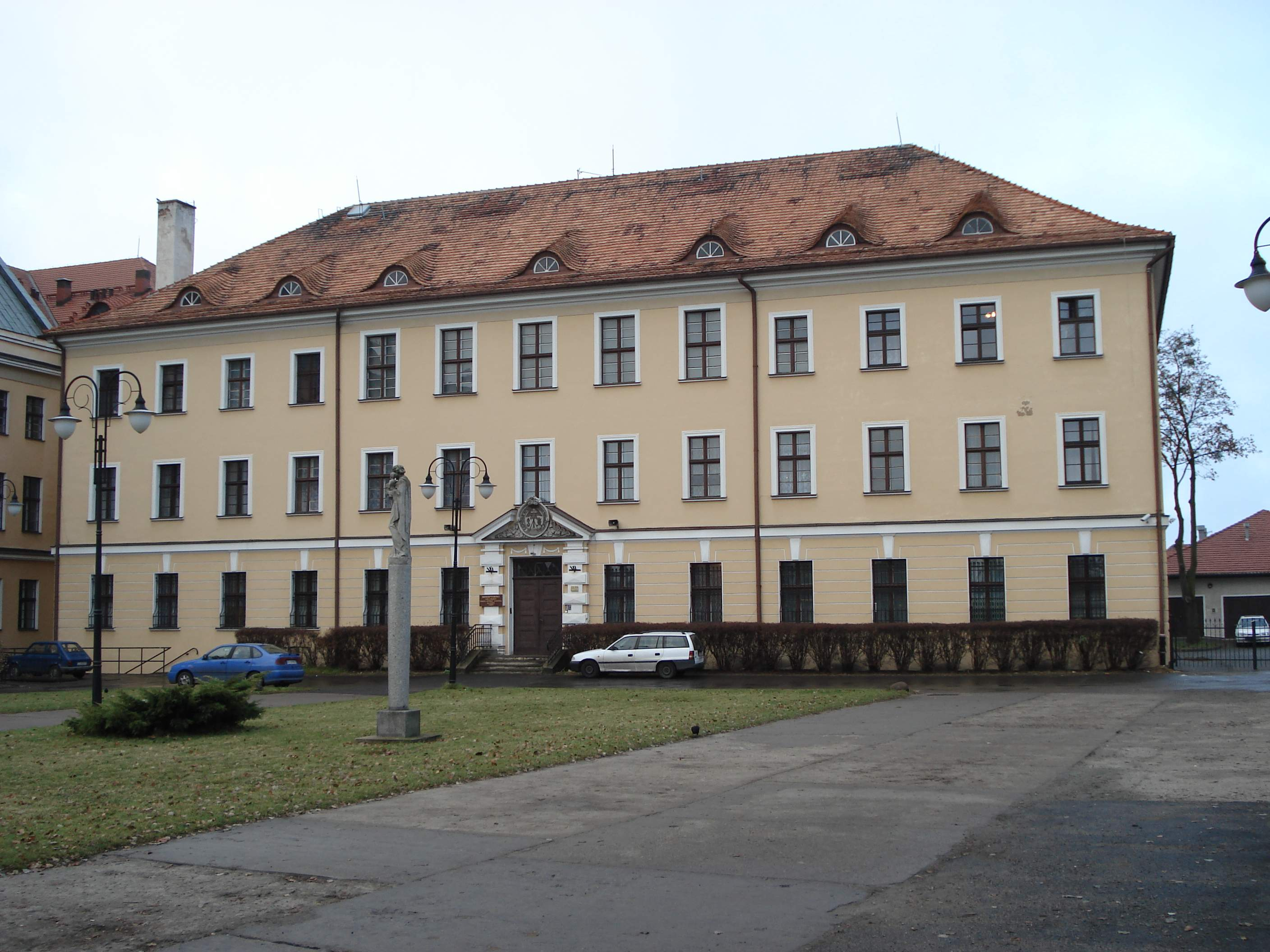 Redemptorist monastery in Toruń, Northern wing, 1929. Designed by Stefan Cybichowski